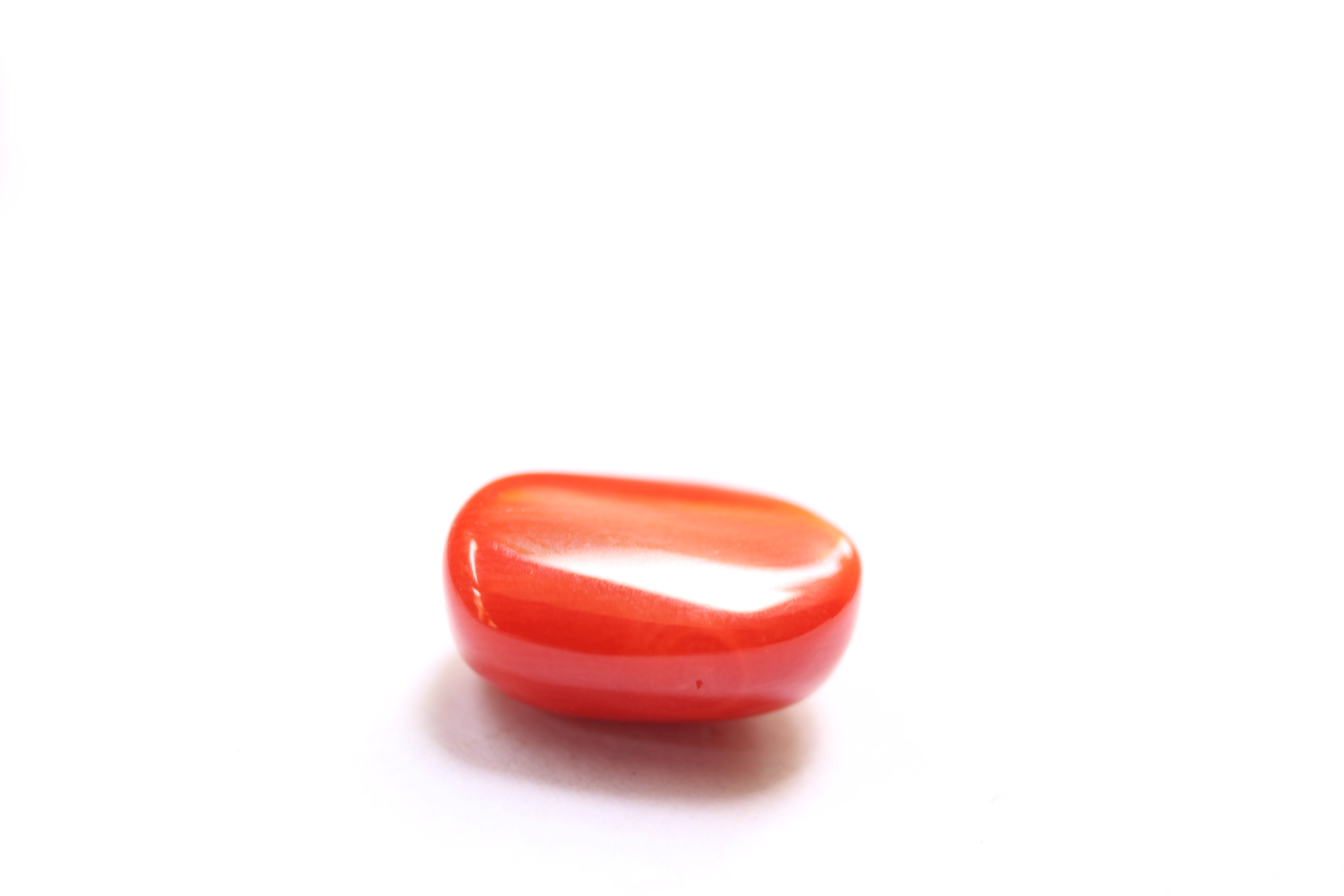 Precious coral, or red coral, is the common name given to a genus of marine corals, Corallium. The distinguishing characteristic of precious red coral is their durable and intensely colored red or pink-orange skeleton, which is used for making jewelry